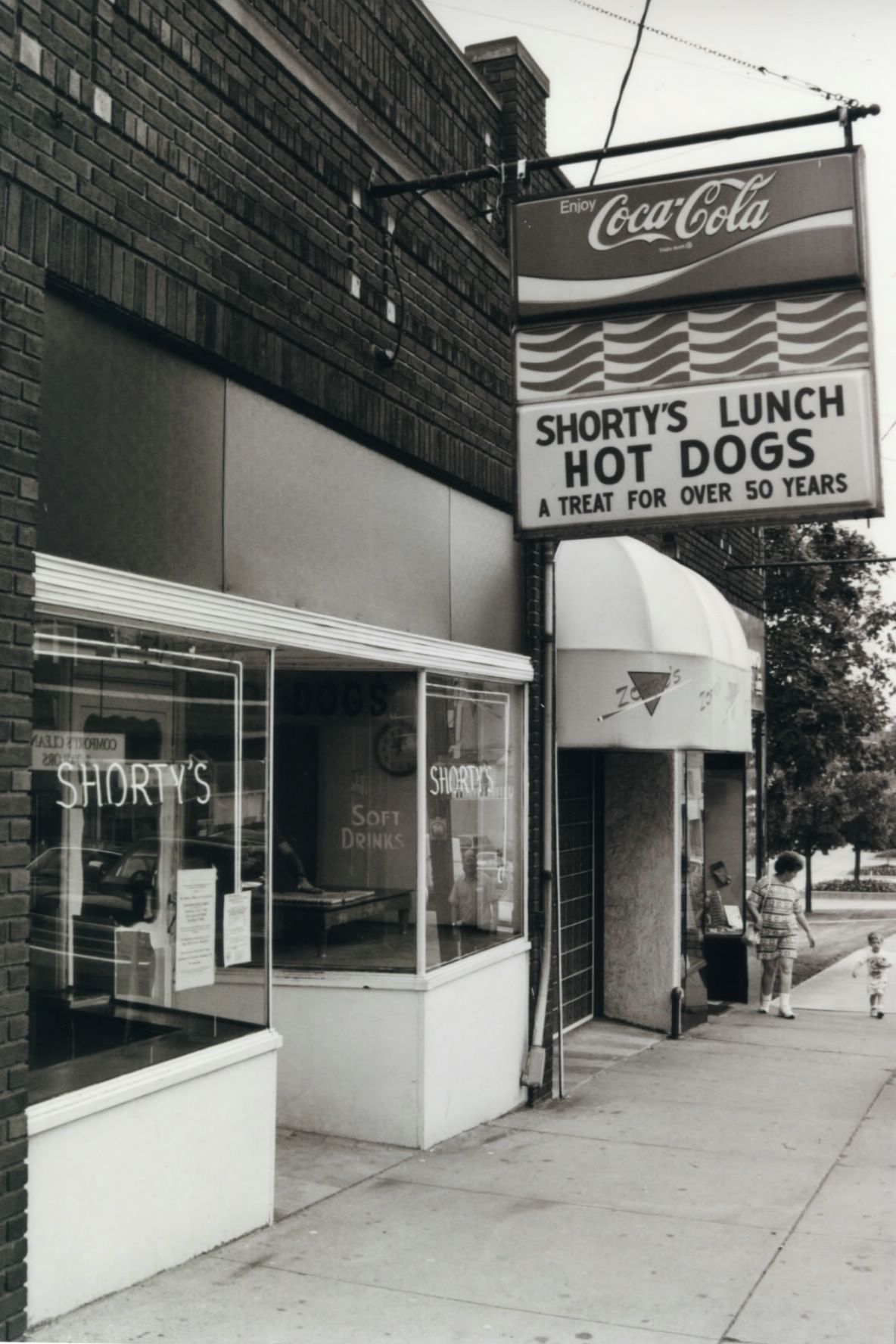 Shorty's Lunch in Washington, Pennsylvania; 34 W Chestnut St, Washington, PA 15301